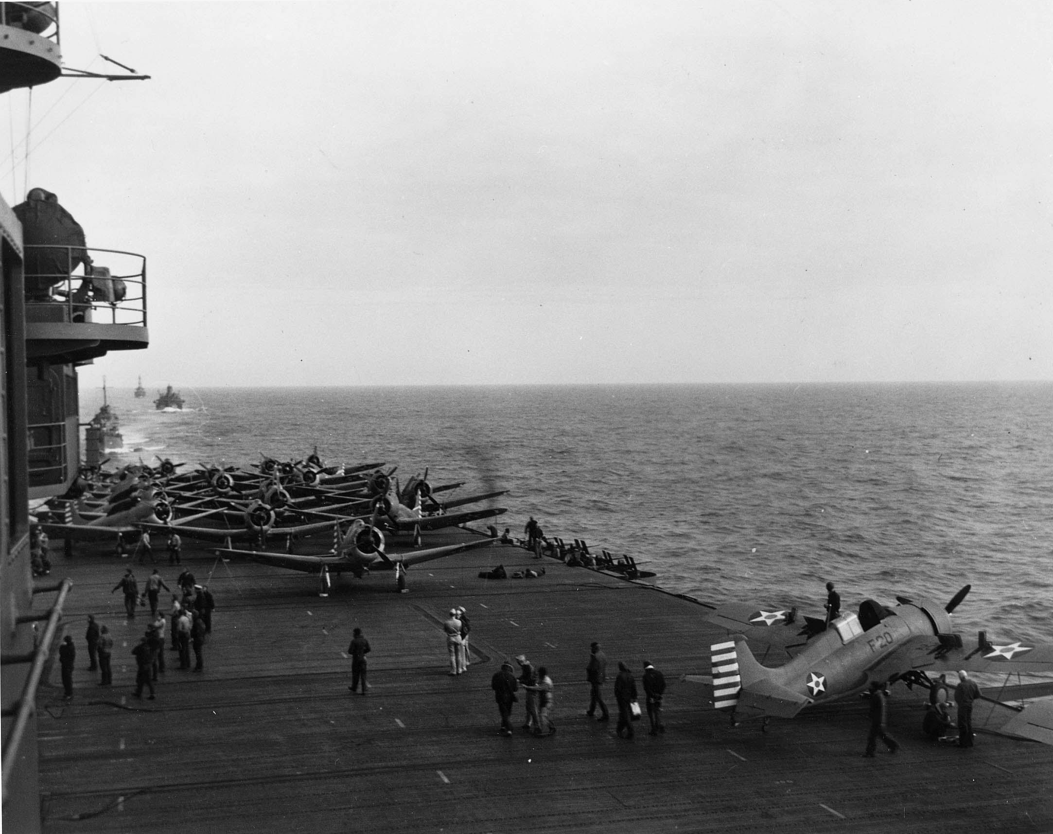 U.S. Navy Douglas SBD-2/3 Dauntless of the Enterprise Air Group pictured warming up their engines on the after part of the Big E's flight deck during escorting of USS Hornet (CV-8) and the Doolittle Raiders for the Tokyo Raid. A Gumman F4F-4 Wildcat is being armed on the right.